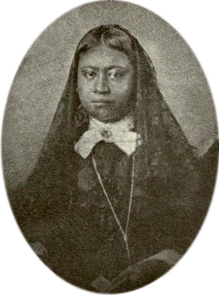 Princess Victoria, Kamamalu of Hawaii, Kuhina Nui Kaahumanu IV.